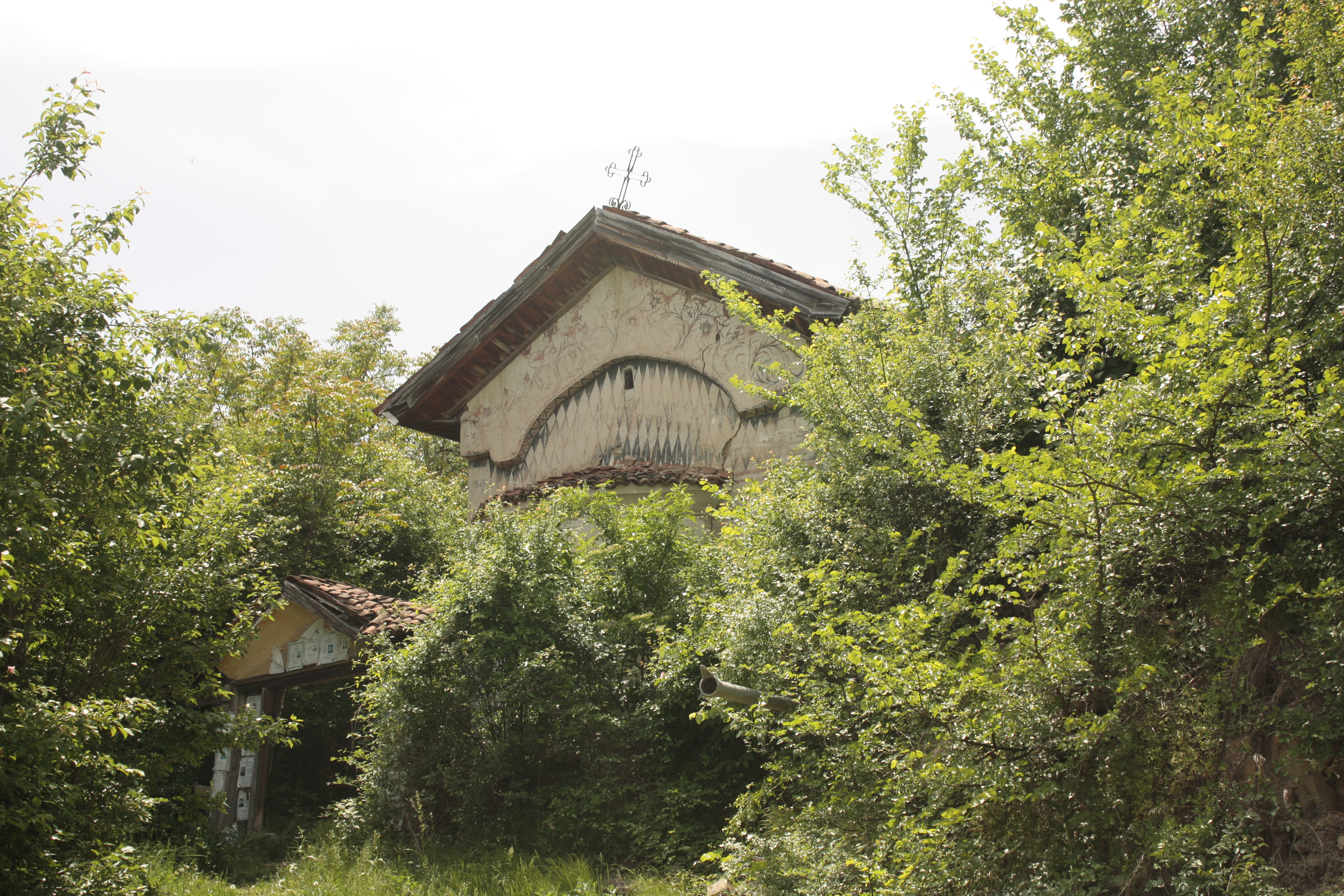 Saint Nicolas church in Chukovets Pernik Province (1717)